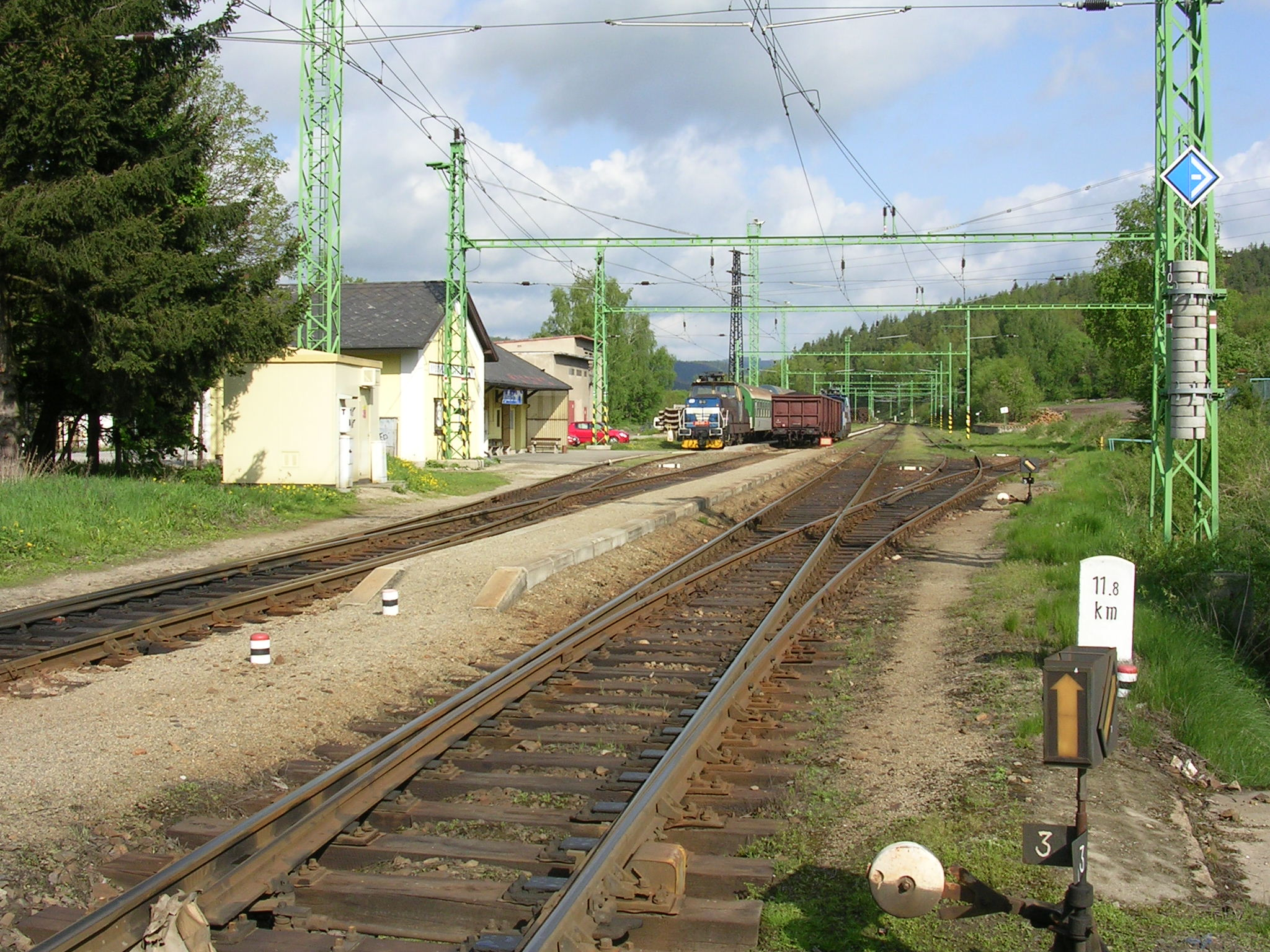 Vyšší Brod-Hrudkov, Český Krumlov District, South Bohemian Region, the Czech Republic.